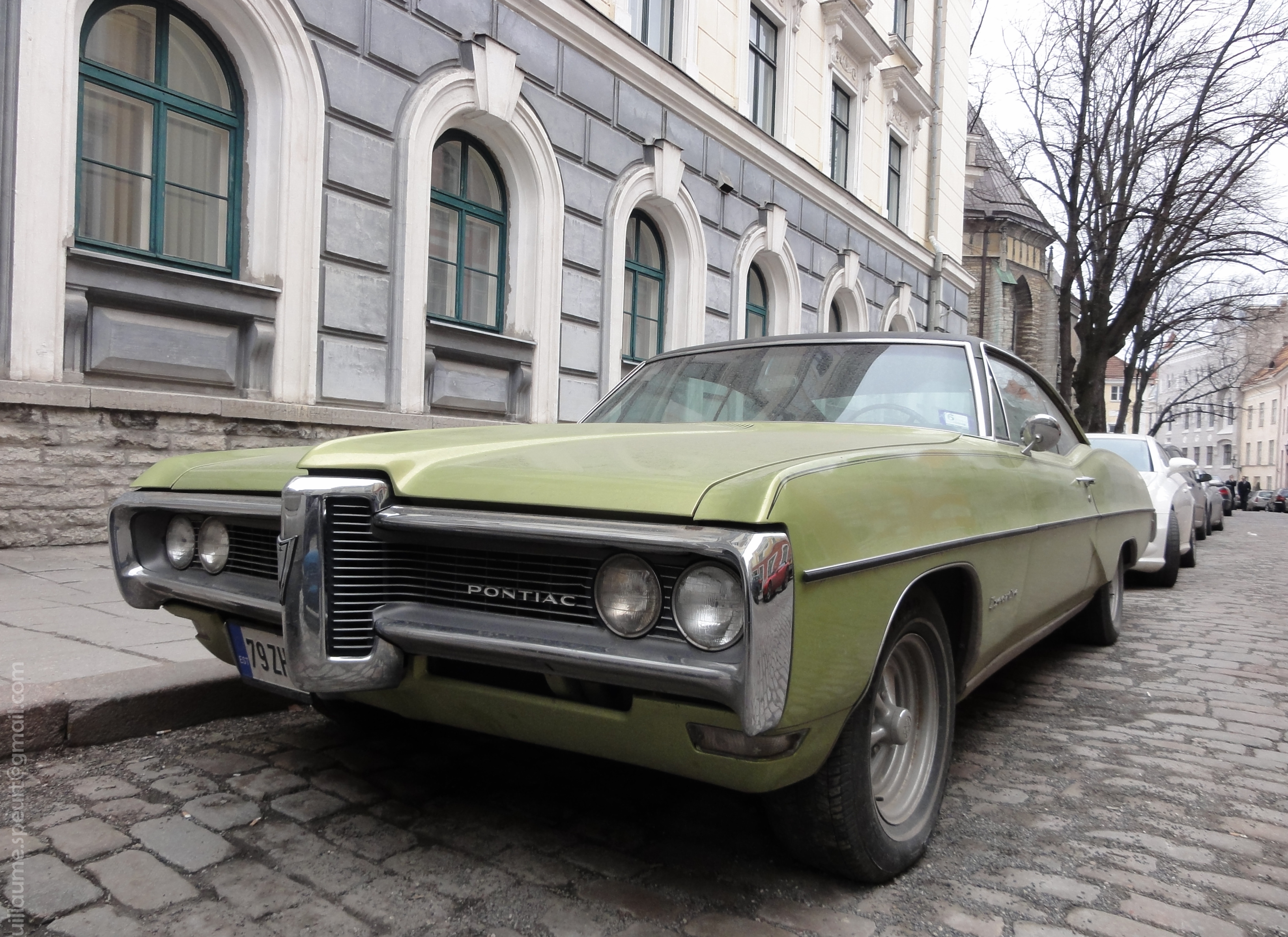 Old American car